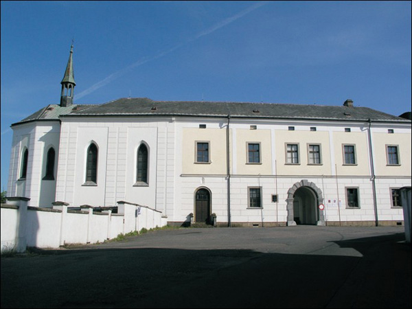 Žamberk castle.